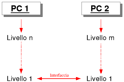 Visualization of network protocol